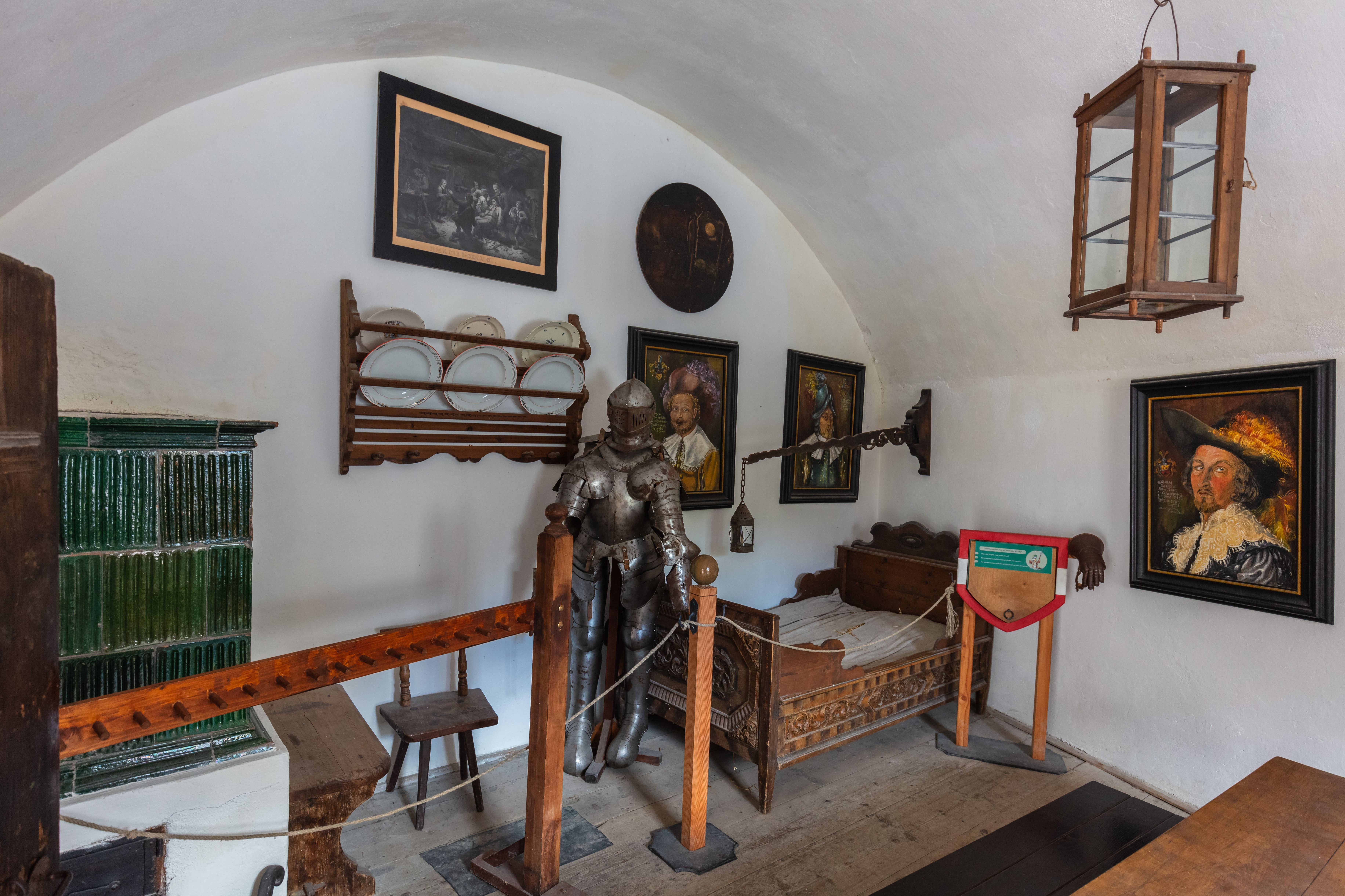 Castle Hohenwerfen, Werfen, Austria